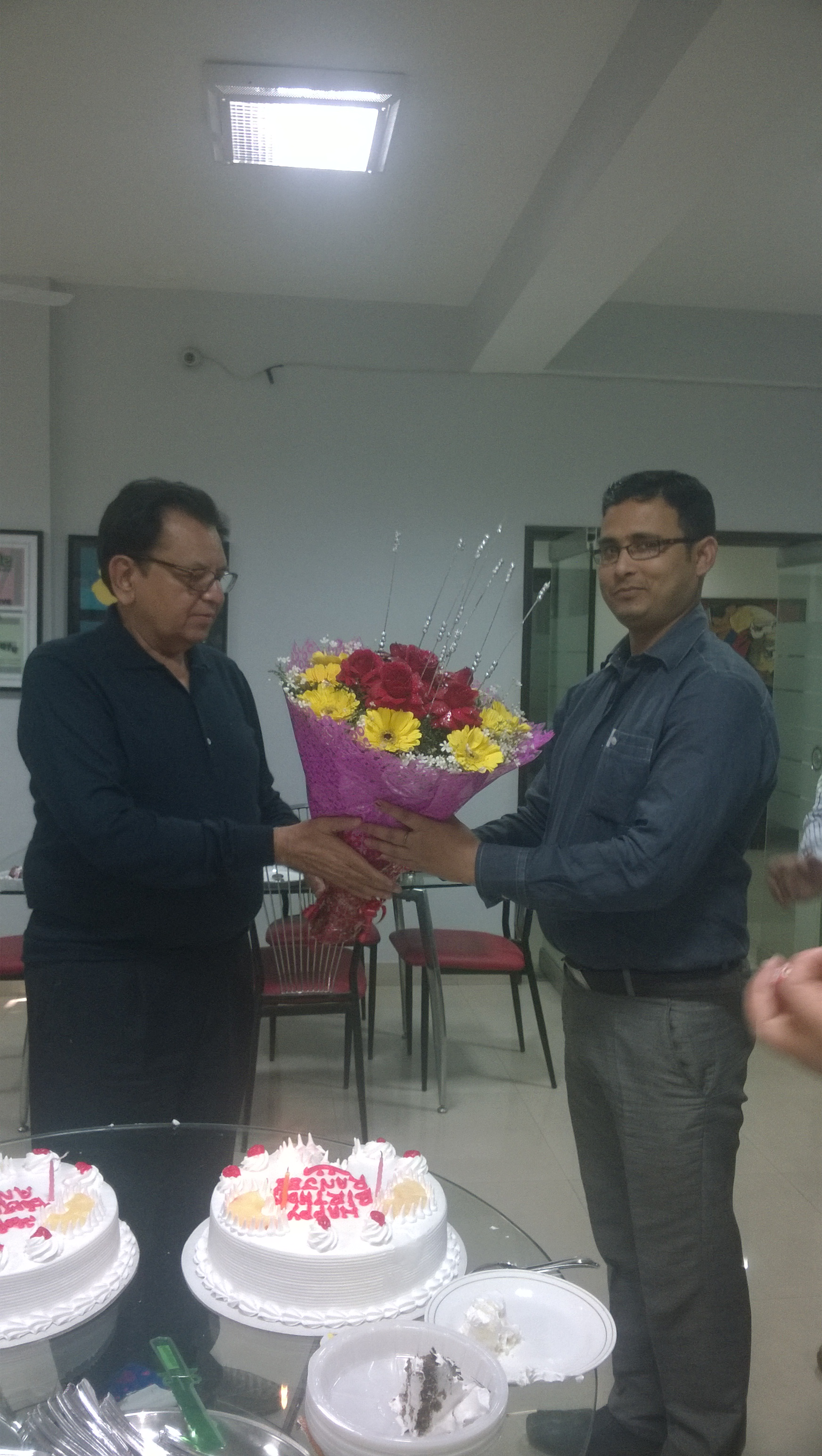 Ranjeet